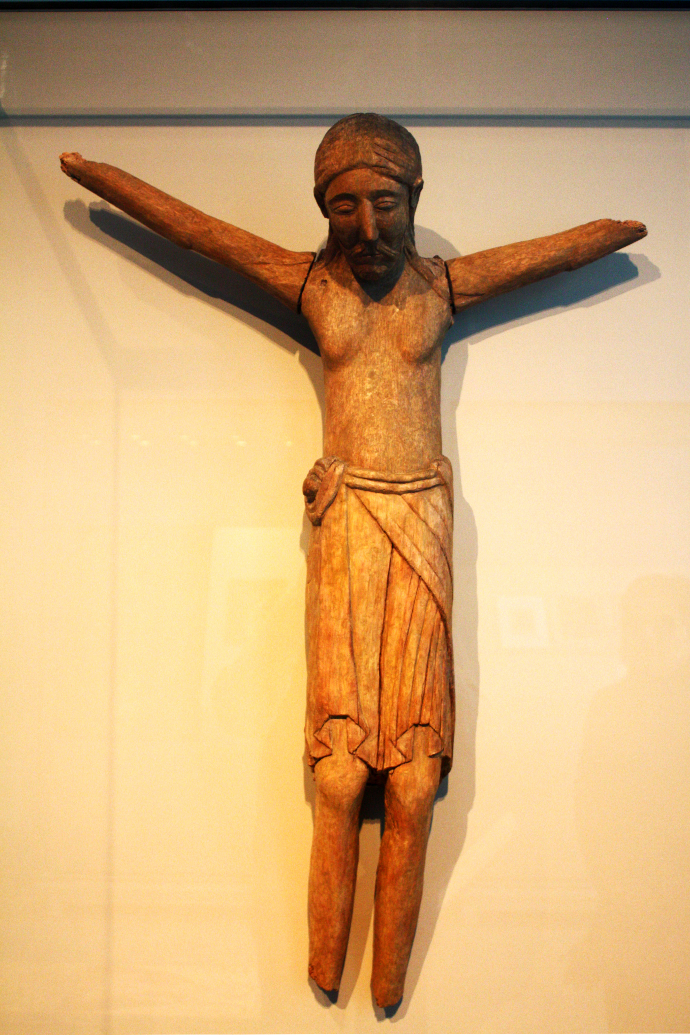 Crucifix (corpus) of the monastery Dietkirchen (11th century) in Bonn, Germany